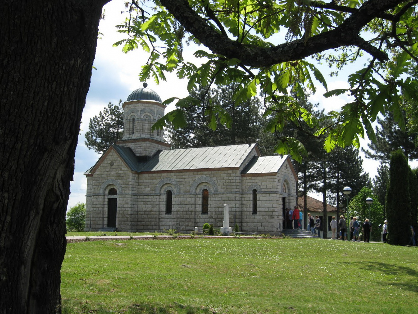 Subjel - The Church St.Luca